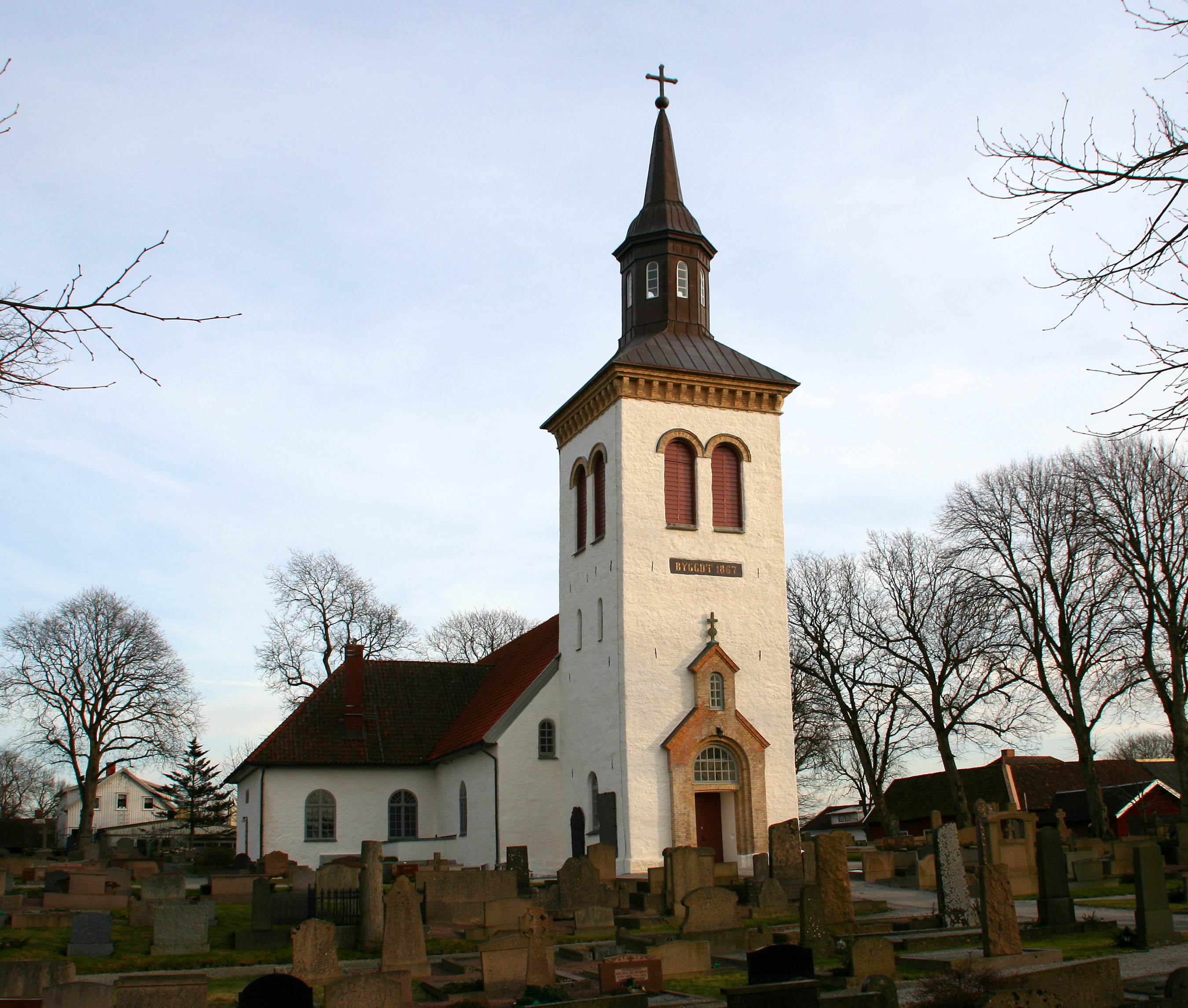 Solberga Church, Kungälv district